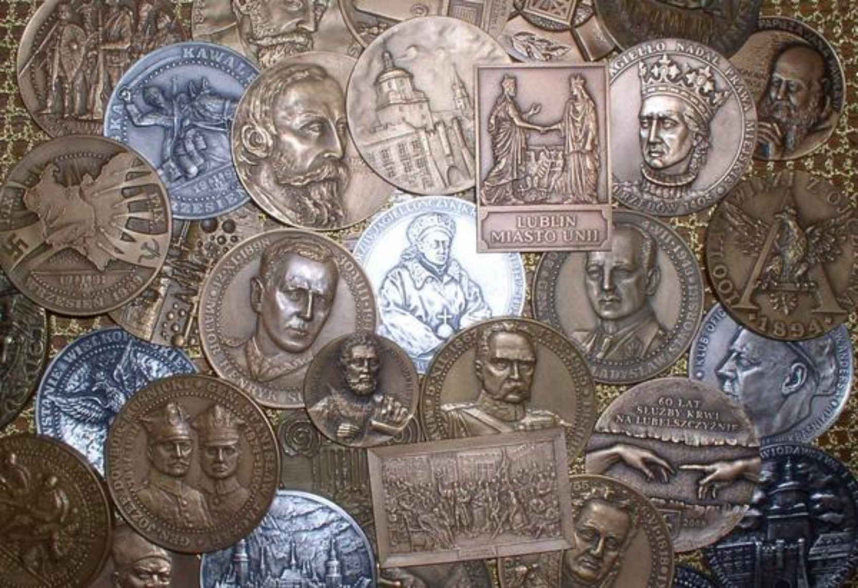 Medals created by Zbigniewa Kotyłło.